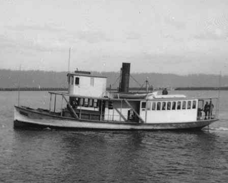 Victor (steamboat) in Commencement Bay, October 5, 1898